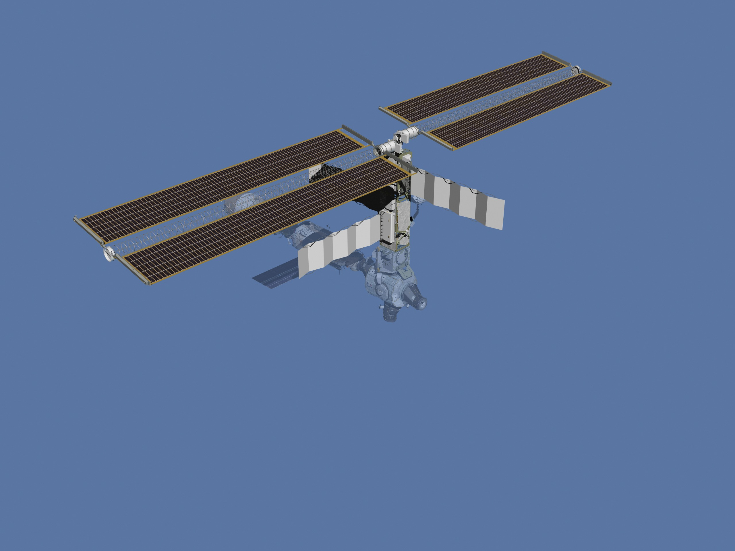 The STS-97 crew delivered and installed the P6 truss, which support the first U.S. solar arrays.